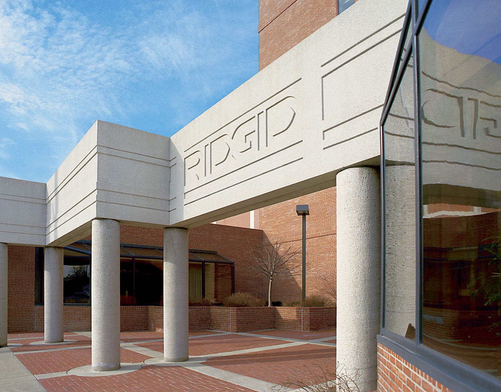 RIDGID's Elyria Headquarters Entrance.